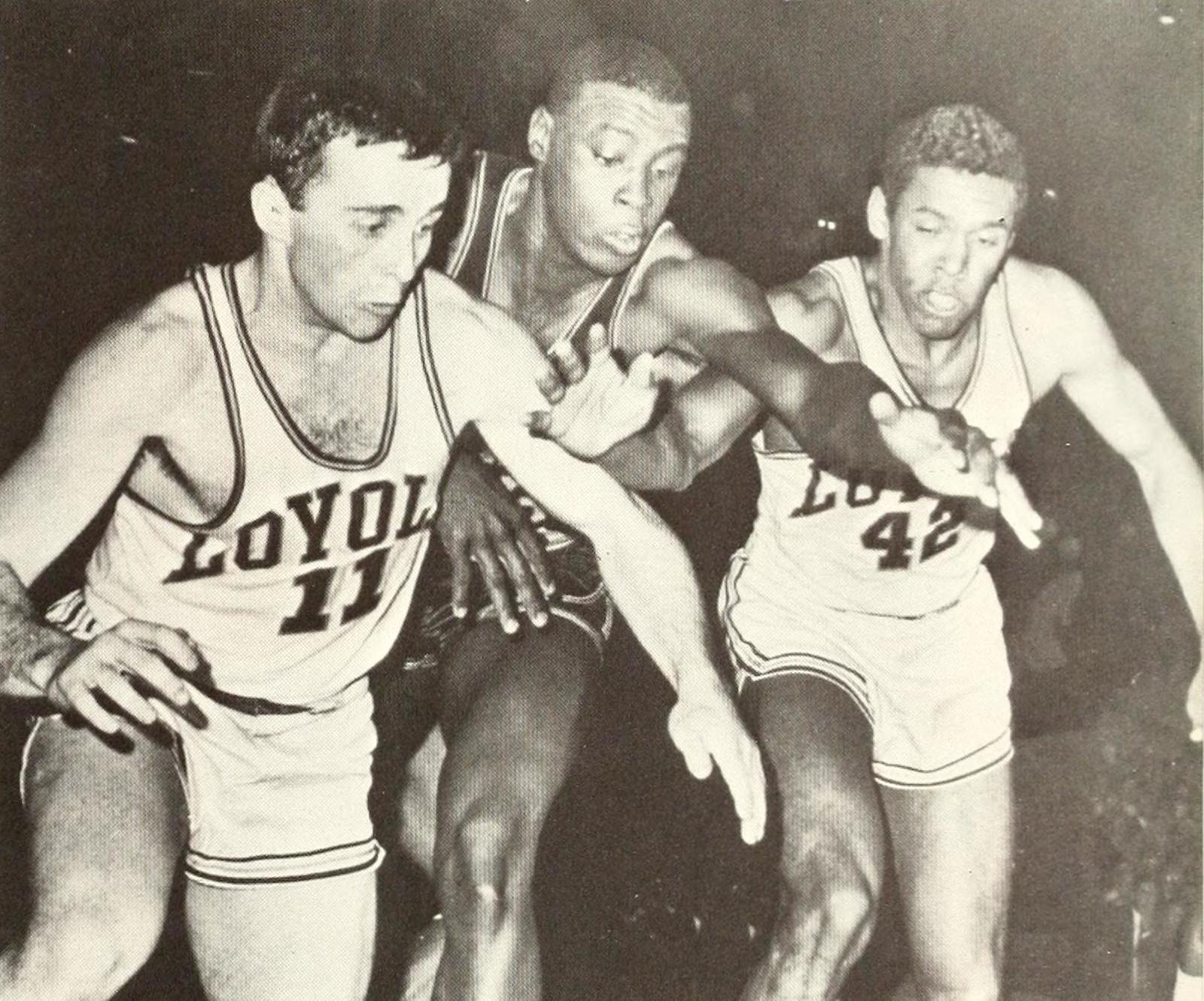 Scanned from the 1964 edition of the Loyolan, the yearbook of Loyola University Chicago